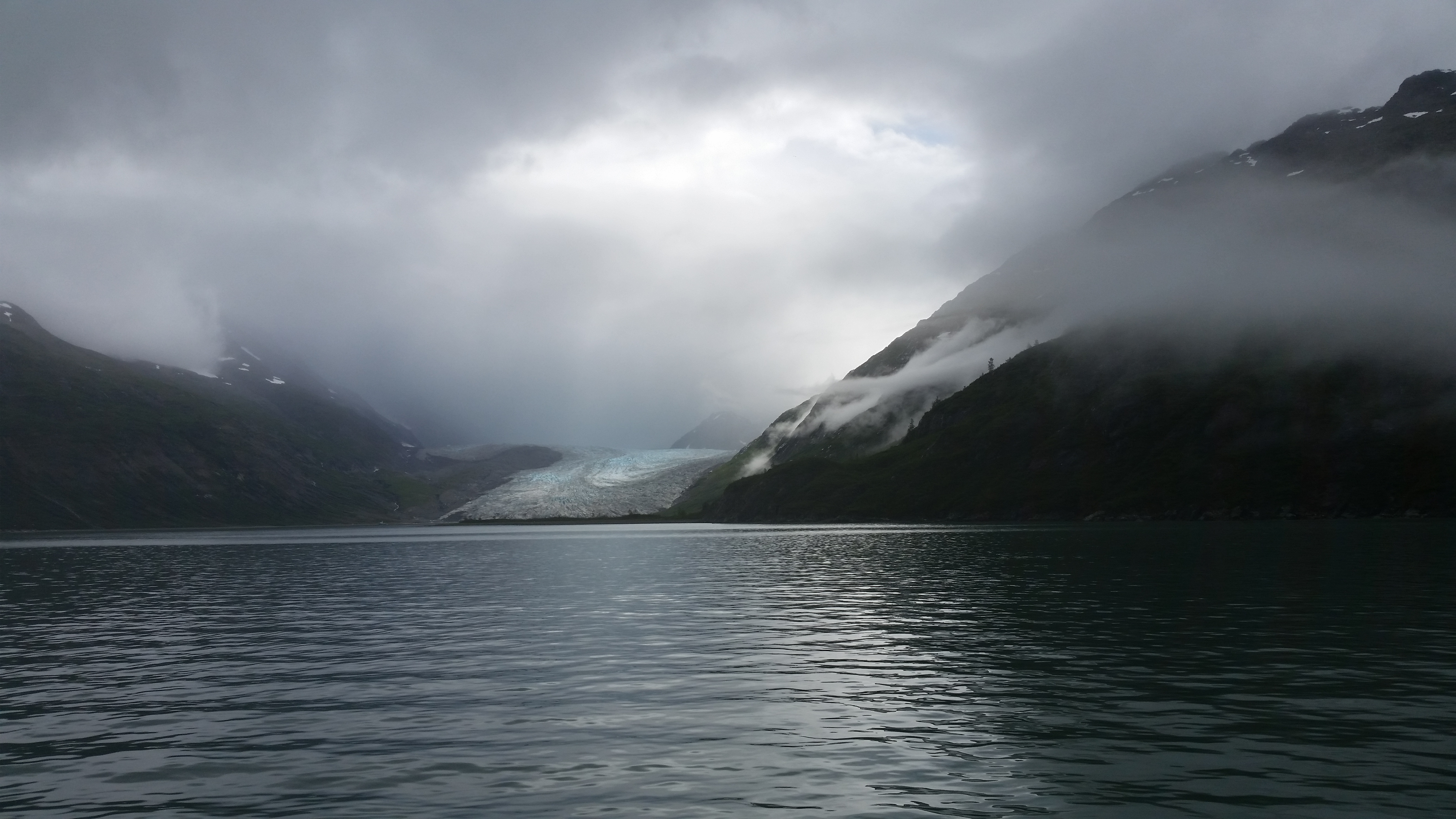 Reid Glacier in Glacier Bay National Park